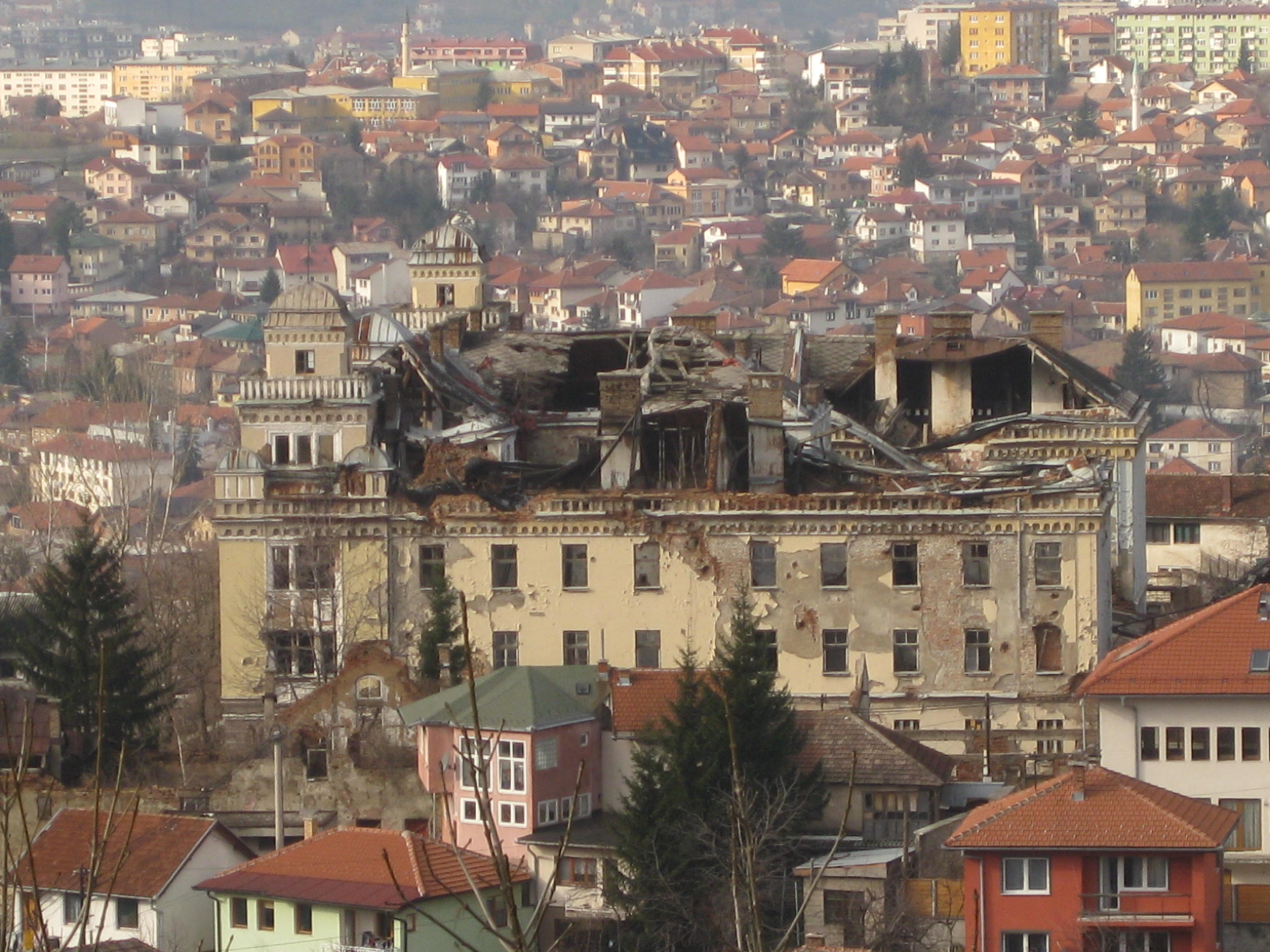 Jajce kasarna, Sarajevo.